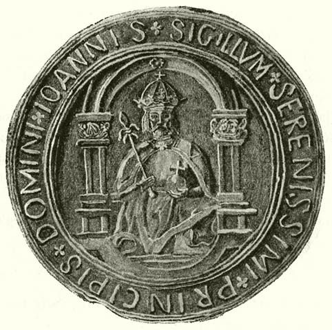 Szapolyai János kettős pecsétje. Royal Seal of the King John I of Hungary. 16th century.